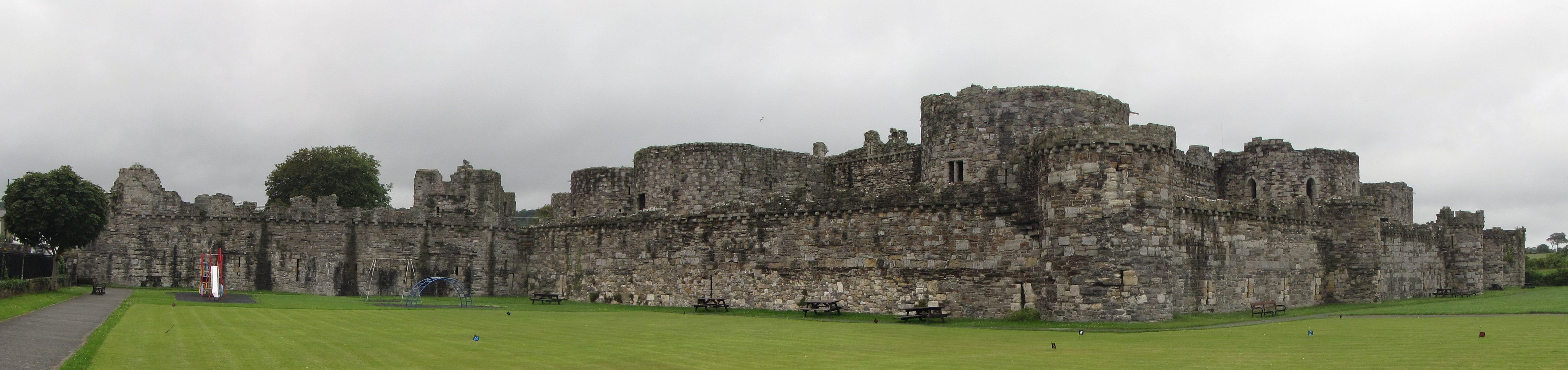 Beaumaris Castle